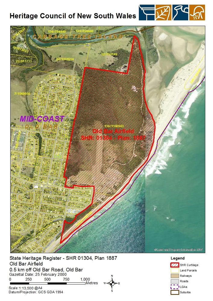 Old Bar Airfield: SHR Plan 1887